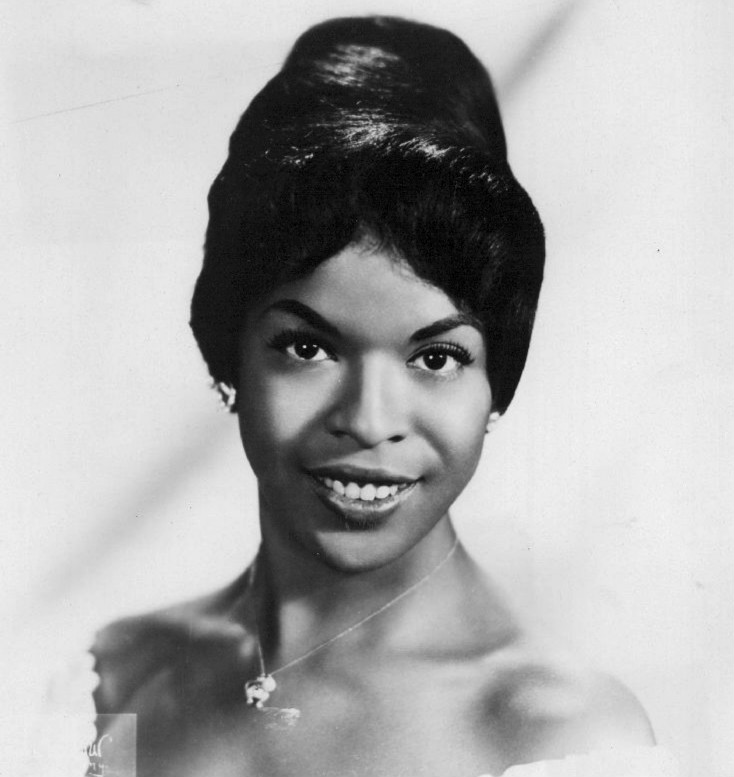 Photo of singer-actress Della Reese.